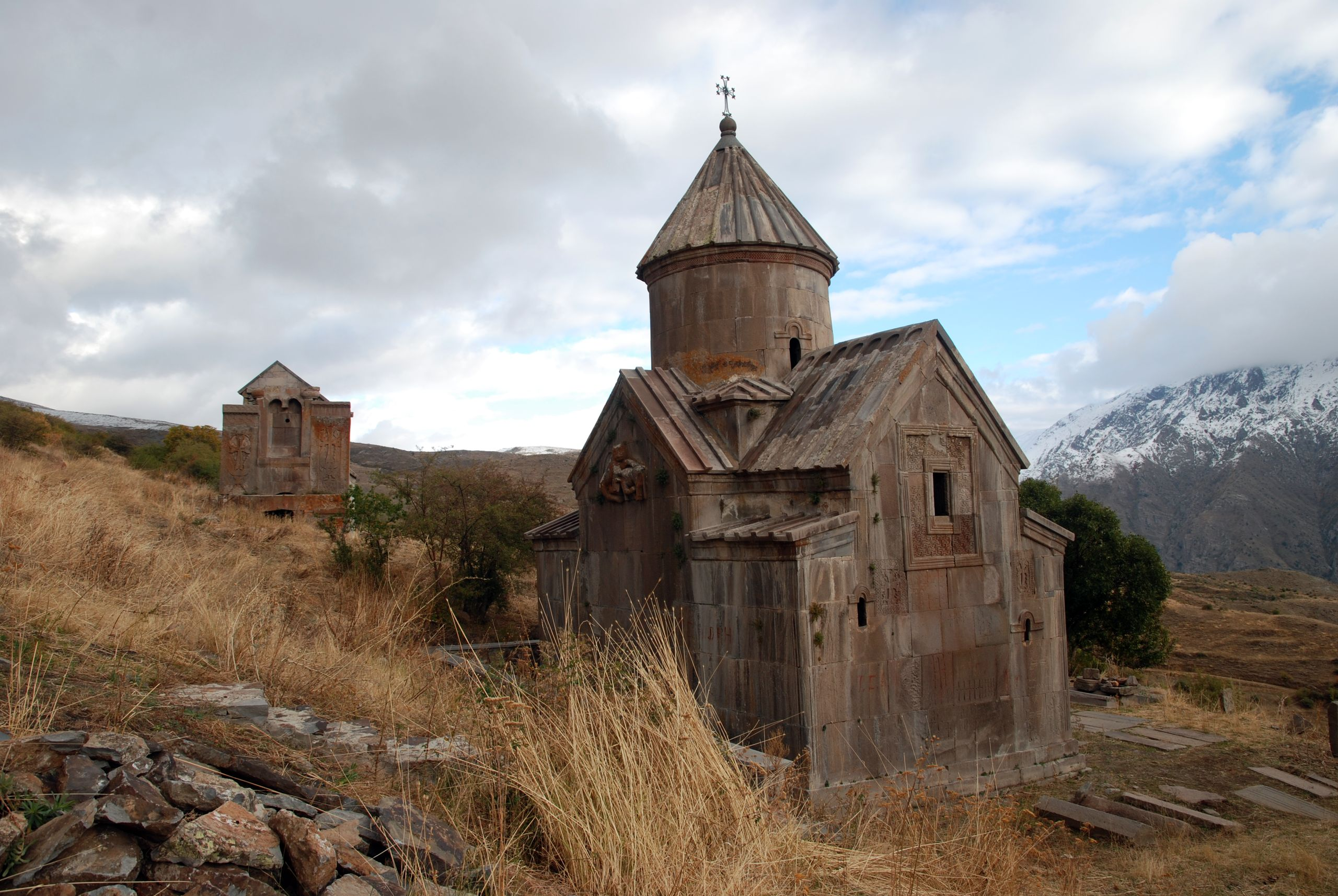 Tsakhats Kar, Surp Nshan and Surp Karapet from northwest